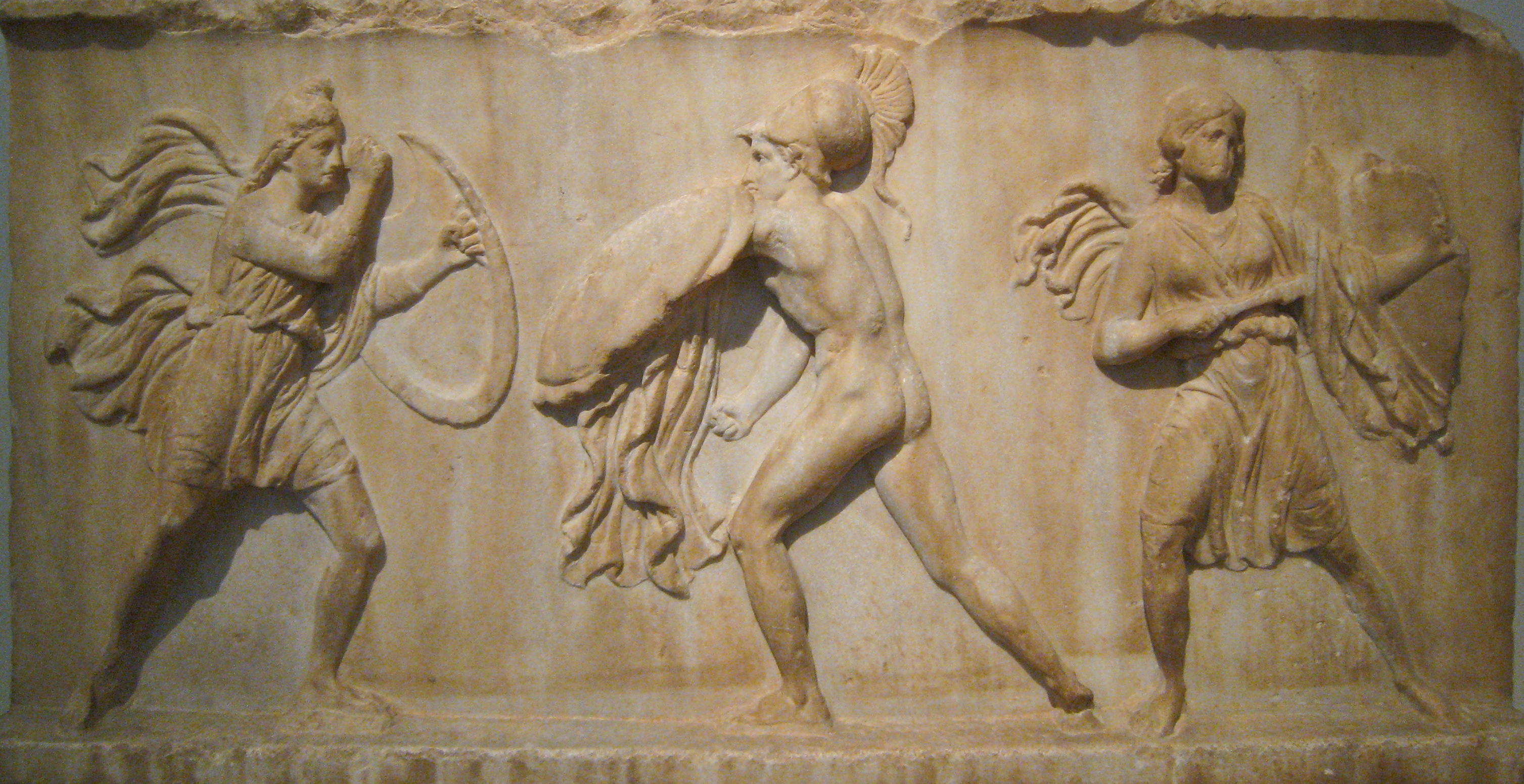 Relief slab from a frieze depicting an amazonomachy (two Amazons fighting a Greek warrior), in pentelic marble, dating from mid-4th century BC. Attributed to the school of Bryaxis or Tymotheos. On display in the Room 28 of the National Archaeological Museum in Athens.